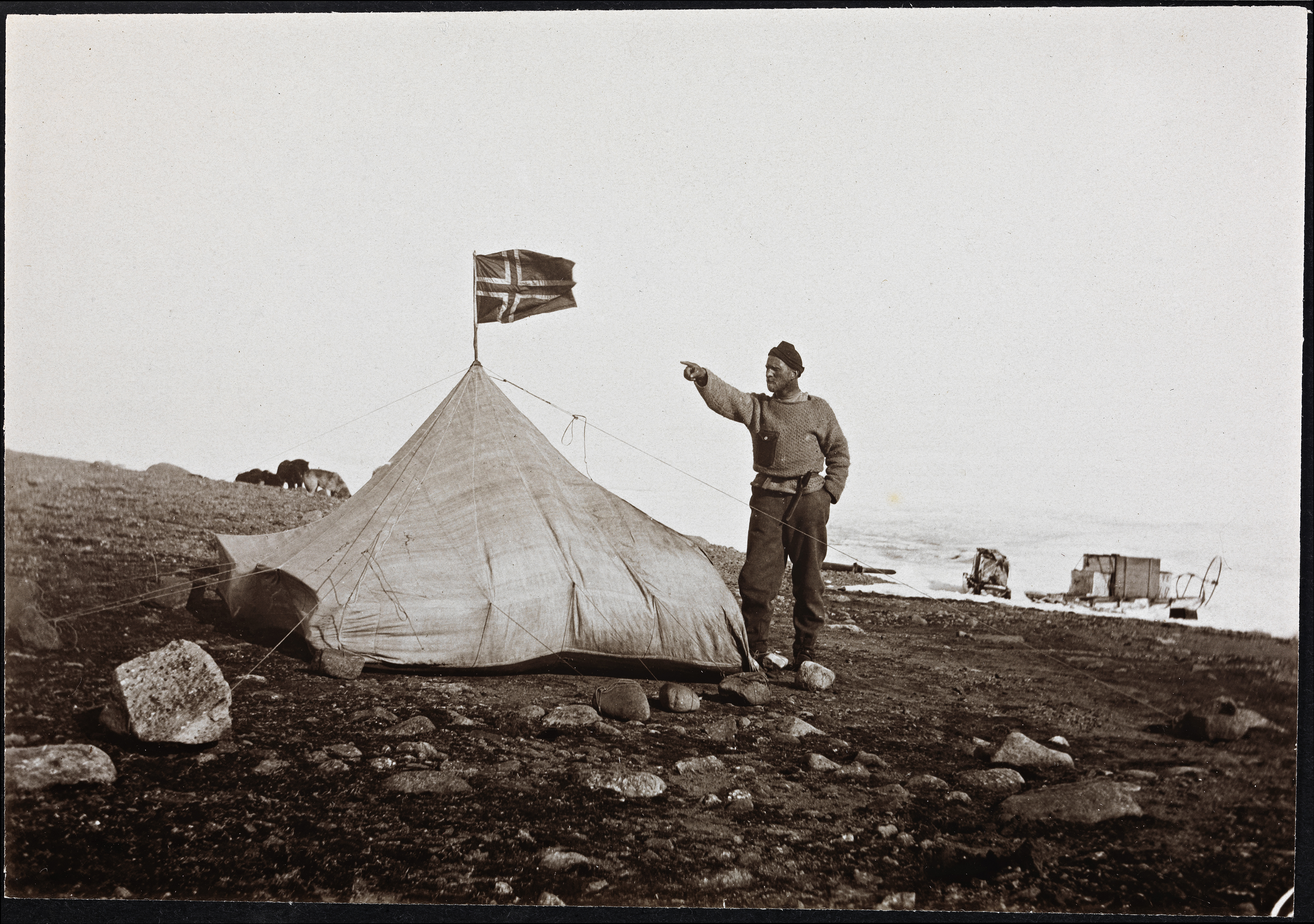 Beskrivelse / Description: Personen på bildet er Per Schei (1875-1905). 2. Fram-ekspedisjon: Nord-vest-Grønland og øyene nord for Øst-Canada : 1898-1902 / 2nd "Fram" expedition : Northwest Greeland and the islands North of East Canada Dato / Date: 1899 Sted / Place: Canada, Nunavut, Braskerudflya Fotograf / Photographer: ukjent / unknown Digital kopi av original / Digital copy of original: s/h papirpositiv Eier / Owner Institution: Nasjonalbiblioteket / National Library of Norway Lenke / Link: Bildesignatur / Image Number: bldsa_SVpos_0044